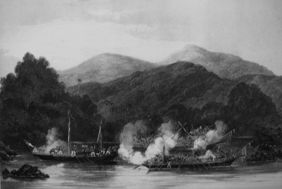 "Attack of two Lanoon Pirate Proas on the Proa 'Jolly Batchelor'. Belonging to Rajah Brooks of Sarawach and manned by the crew of HMS Dido off Datto Point on the coast of Borneo at 3 am May 1843 which ended in the blowing up of one Proa and the destruction of the crew of the other."